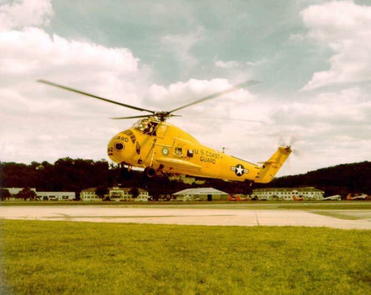 A newly delivered U.S. Coast Guard Sikorsky HUS-1G helicopter from Coast Guard Air Station New Orleans at CGAS Anacostia, Washington D.C. (USA), in September 1960.